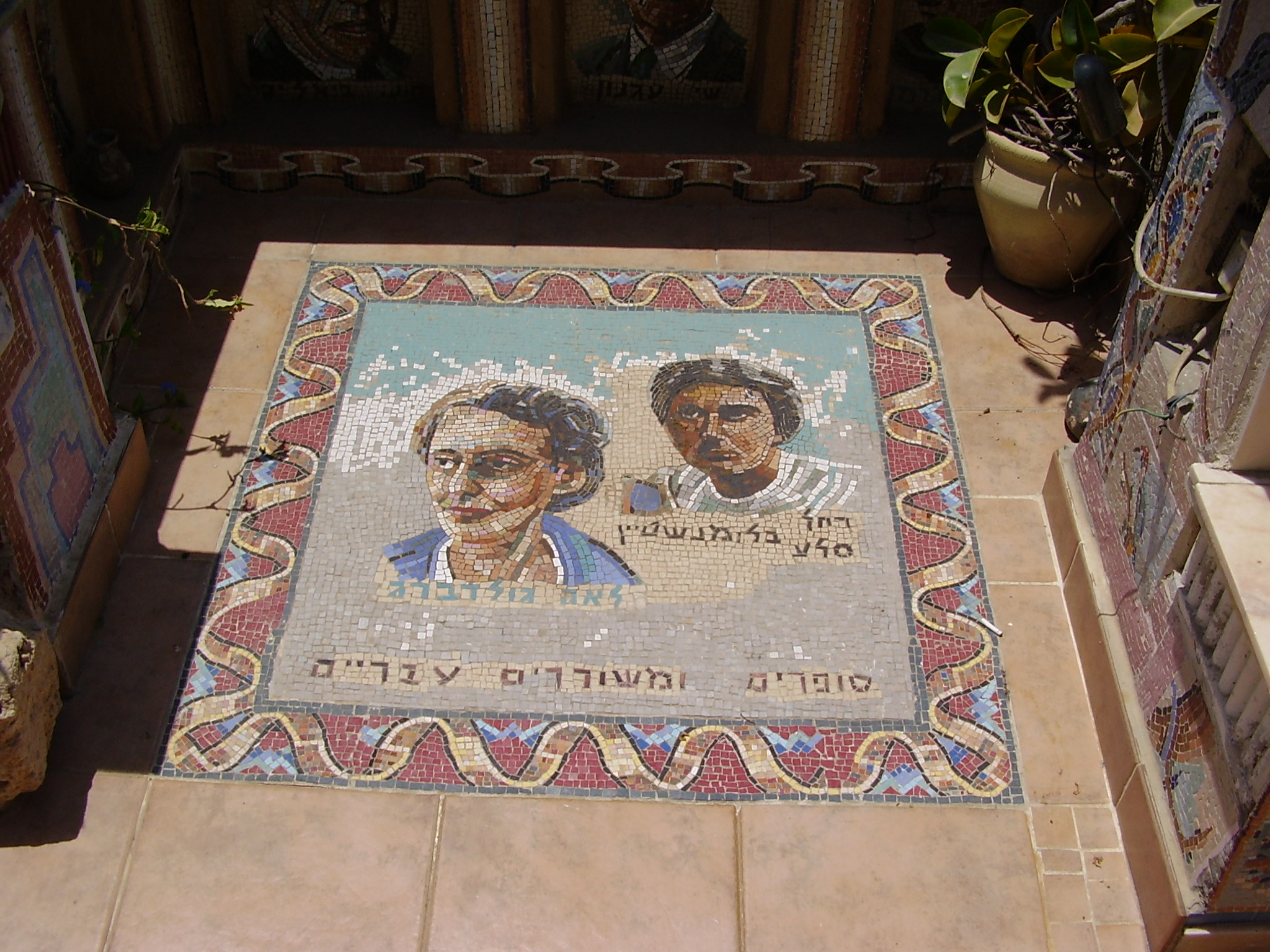 Mosaic Museum - Jaffa, Yehuda Hayamit St 26, Tel Aviv-Yafo, Israël